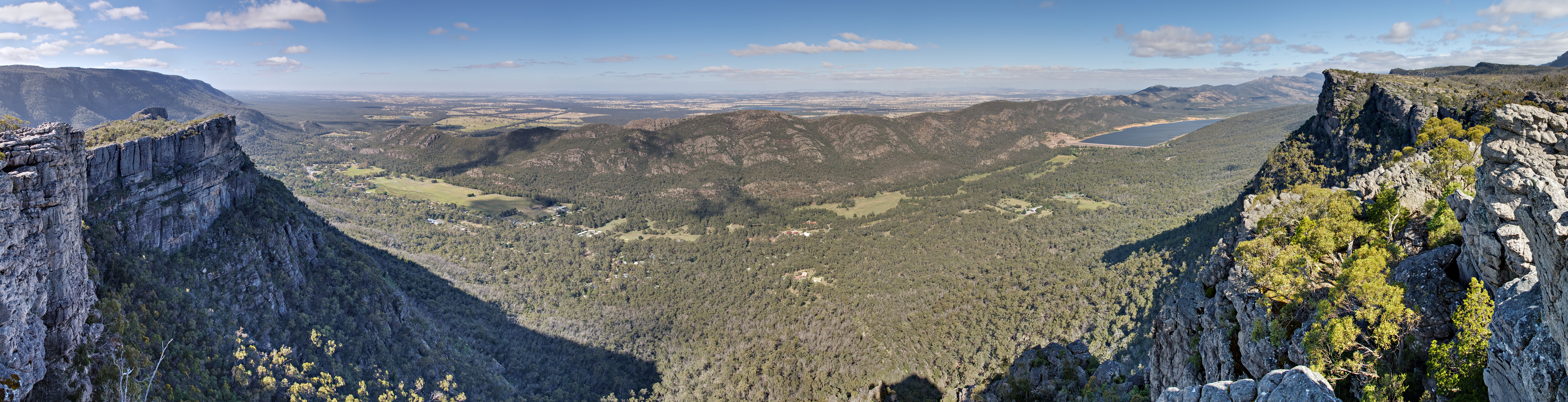 A 180 ~degree panoramic view from The Pinnacle in the Grampians National Park in Victoria, Australia. The town of Halls Gap is visible in the valley. This is an exposure blended image of 27 images (3 exposures of 9 frames taken in portrait format) taken by myself with a Canon 5D and 24-105mm F/4L IS lens.